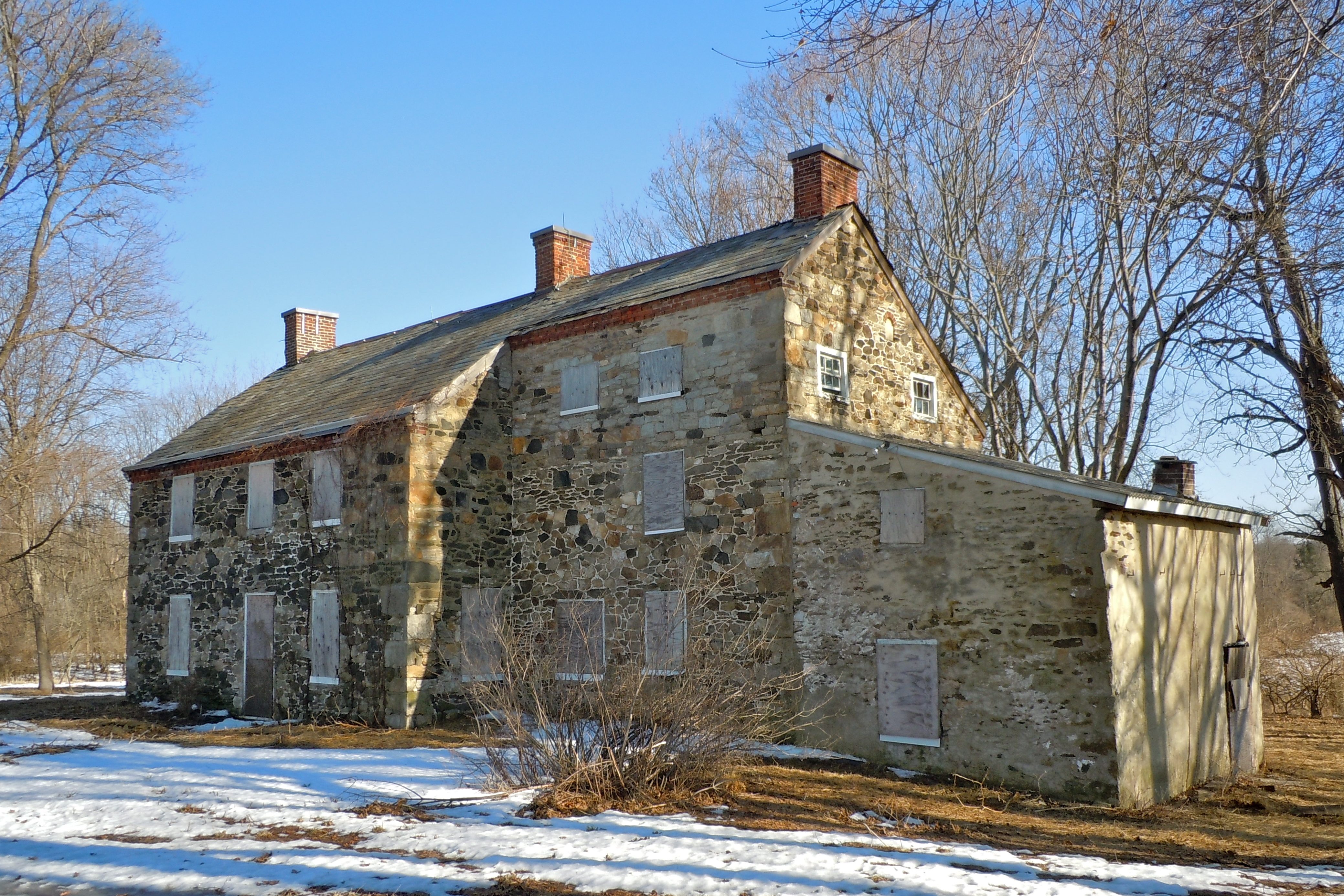 House at Squire Cheyney Farm on the NRHP since January 11, 2010. At 1255 Cheyney Thornton Road (or just Cheyney Road), Thornbury Township, Chester County (near, but not in, Thornbury Township, Delaware County), across Cheyney Road from Cheyney University. Farm goes back to 1700s. A township historical marker on the edge of the site says that Squire Cheyney informed General Washington during the Battle of Brandywine that the British were flanking him to the north (I avoided the temptation to write "the British are coming"!) Now the approx. 60 acre site is a new township park, but the fields are still used for crops and nothing has apparently been done to restore the buildings. No trails or anything like that on site.